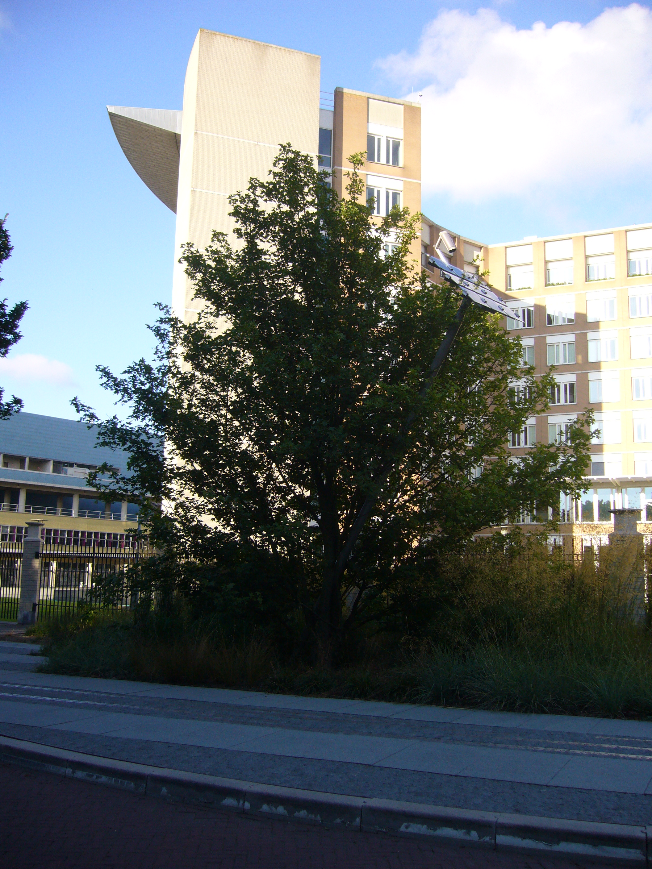 OPCW monument to commemorate victims of chemical weapons